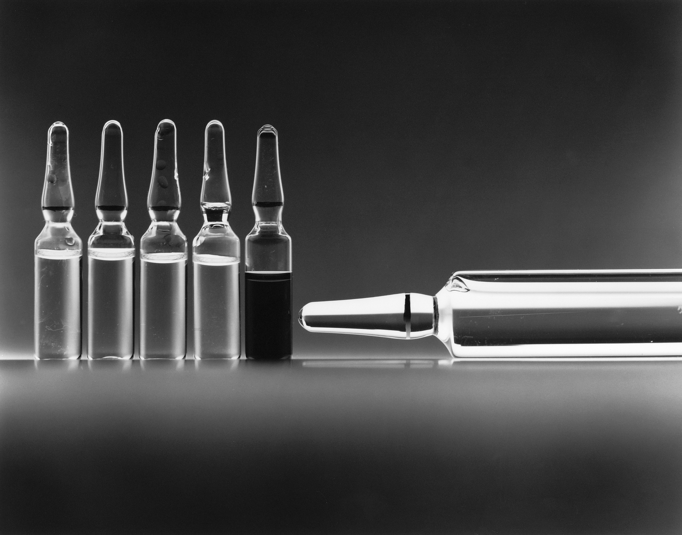 Title Chemotherapy Vials Description Variety of chemotherapy drugs in vials. Topics/Categories Treatment, Chemotherapy Type B&W, Photo Source National Cancer Institute